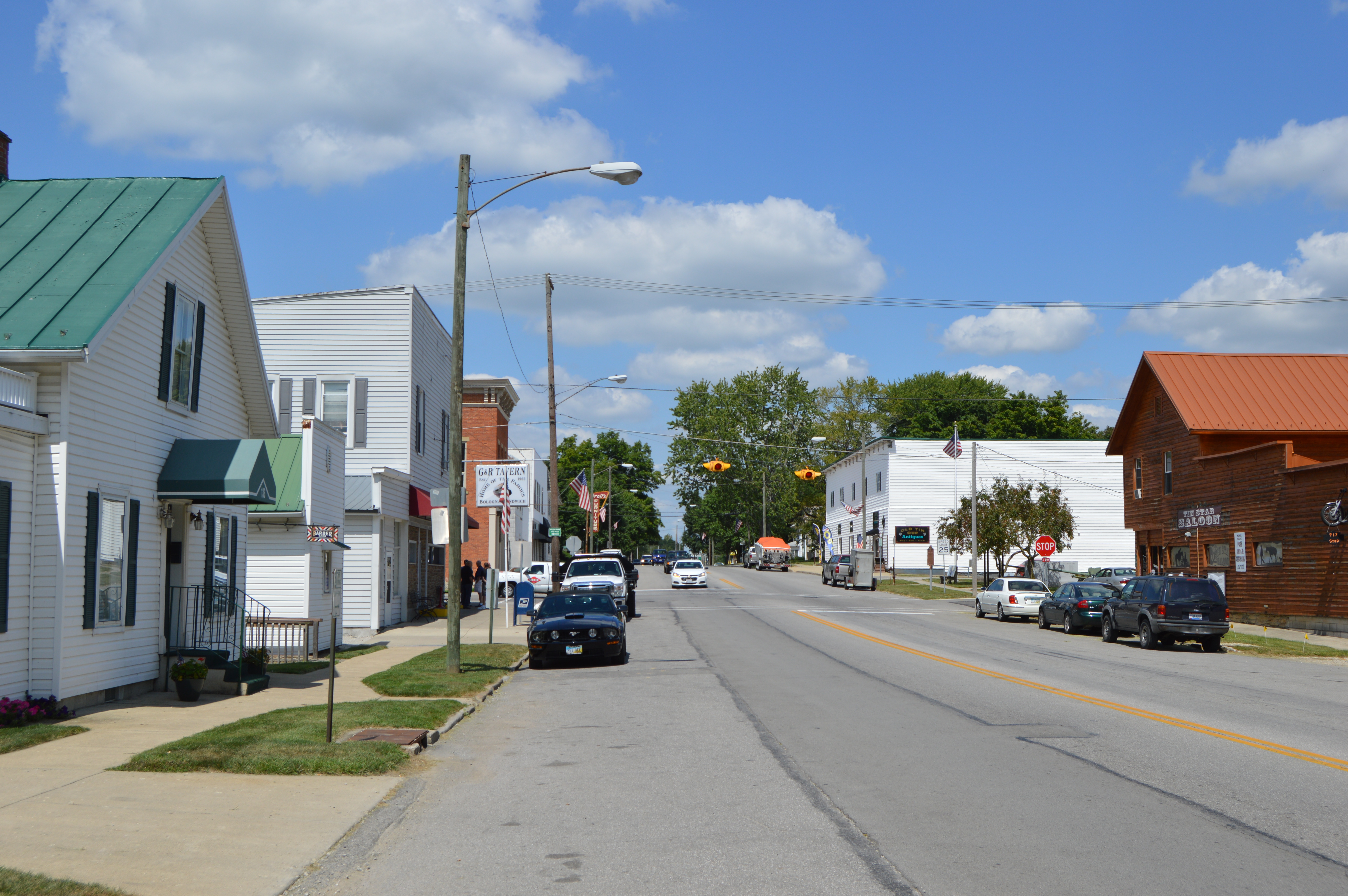 Looking northward on Marion Street (State Route 47) toward the Main Street intersection in Waldo, Ohio, United States.